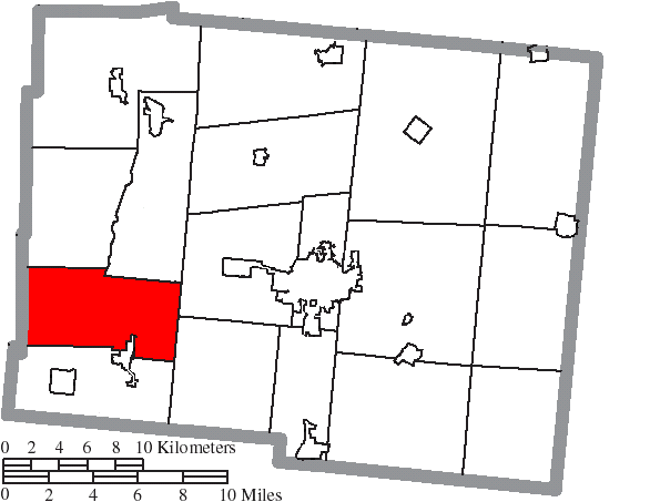 Map of the municipal and township boundaries of Logan County, Ohio, United States, as of the 2000 census, with the location of Pleasant Township highlighted. Township borders are shown only in unincorporated areas in order to differentiate incorporated and unincorporated areas more clearly.